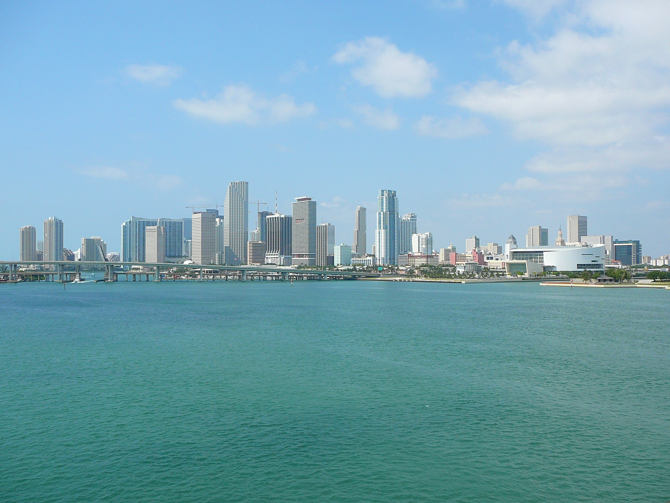 Digital photo taken by Marc Averette. The skyline of Downtown Miami as seen from MacArthur Causeway bridge 5/17/2008